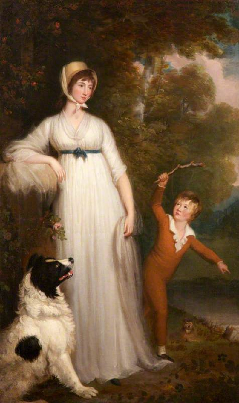 Portrait of Maria Palmer Hoare (died 1845), wife of the eventual Sir Henry Hugh Hoare, 3rd Baronet (1762–1841), English banker.